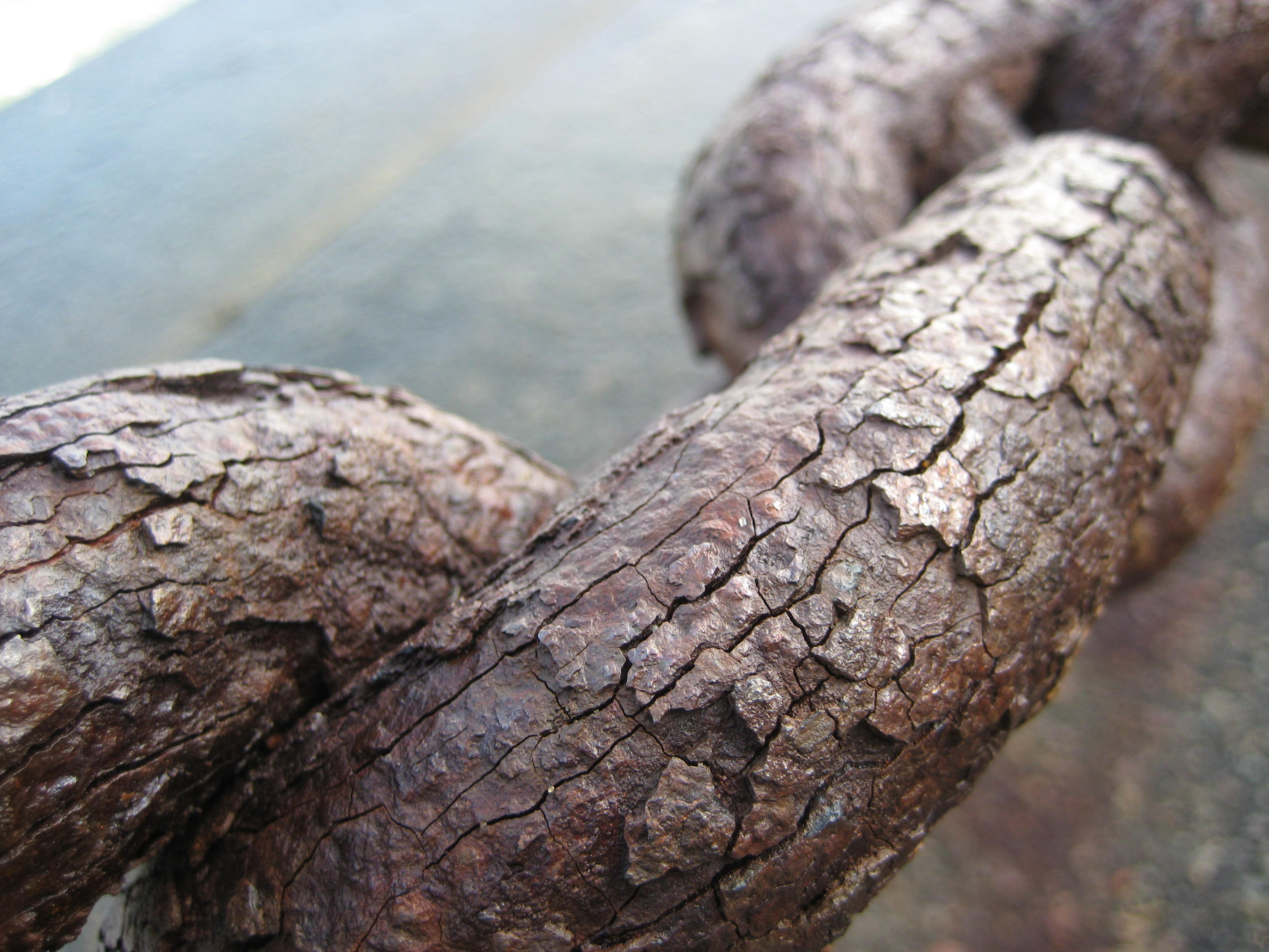 Rust on a chain near the Golden Gate Bridge